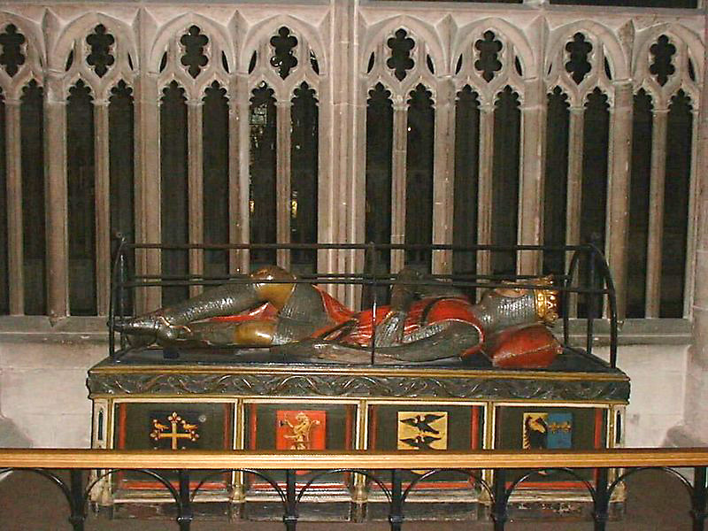 Monument to Robert Curthose at Gloucestershire Cathedral. Photo by user Auximines on 11th March 2001.